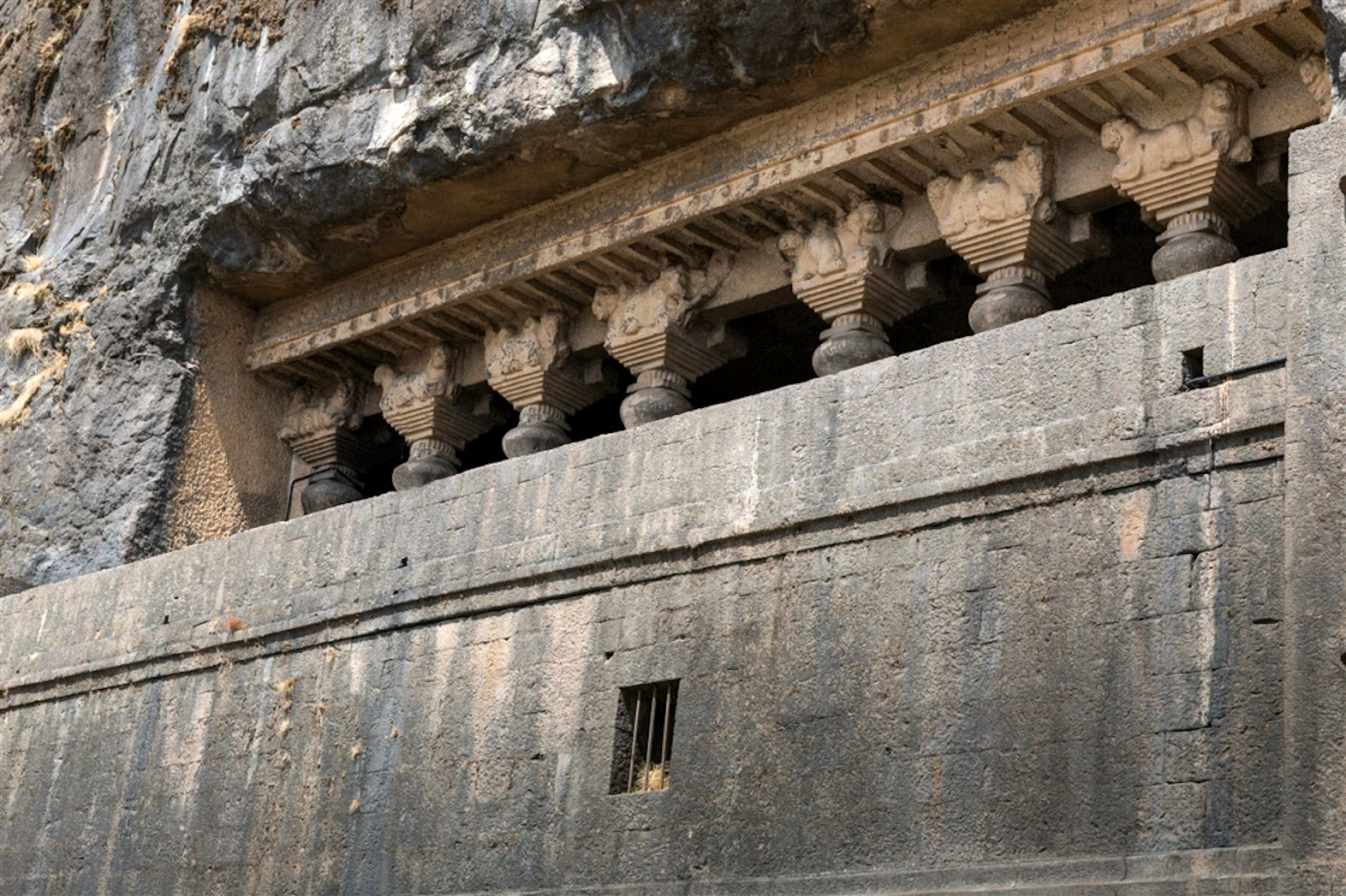 Lenyadri cave 7 exterior